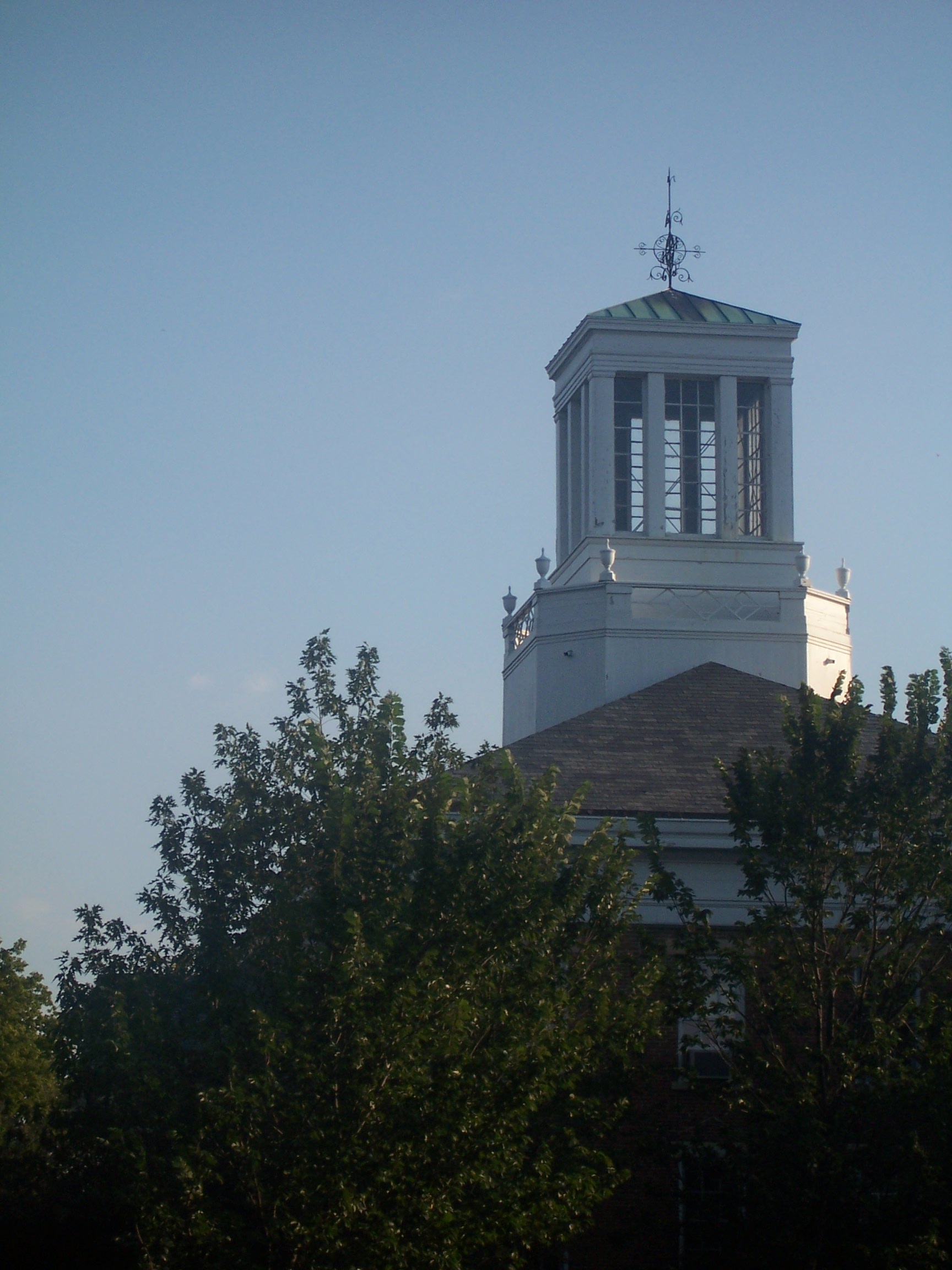 Middle College-Photo By Alex Catalan